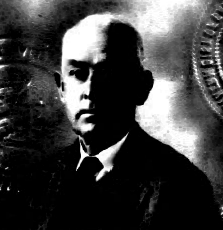 Photo (1924) of William A. Spinks, American billiards champion, co-inventor of modern billiard chalk, oil investor, flower farmer and avocado farmer (originator of the Spinks avocado variety). This is a derivative work, as it is a cropped copy of his passport application, to just show him in the photo, and left-right flipped so that the lit side of his face is toward the text (basic page design principle I got from some book somewhere).